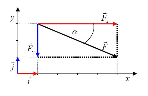 Explain the concept by an example showing F_x = 4N and F_y = -2N